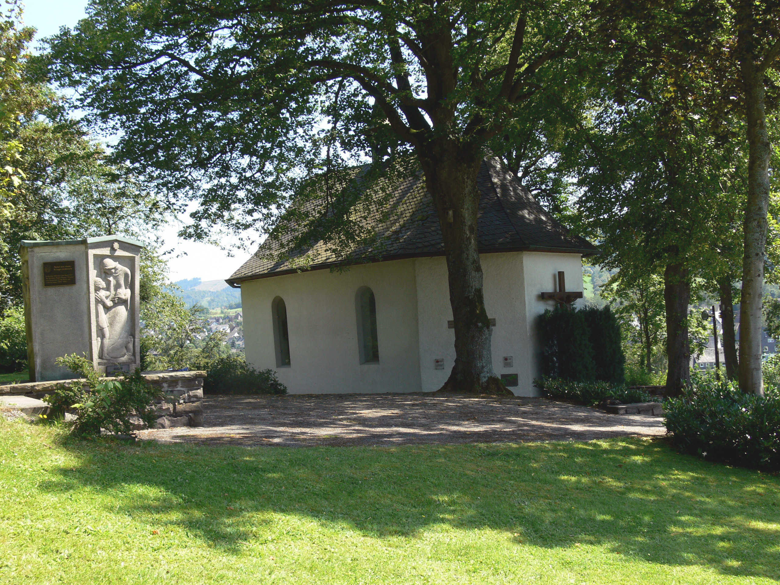 The Chapel “Upon the Werth” in Schmallenberg.